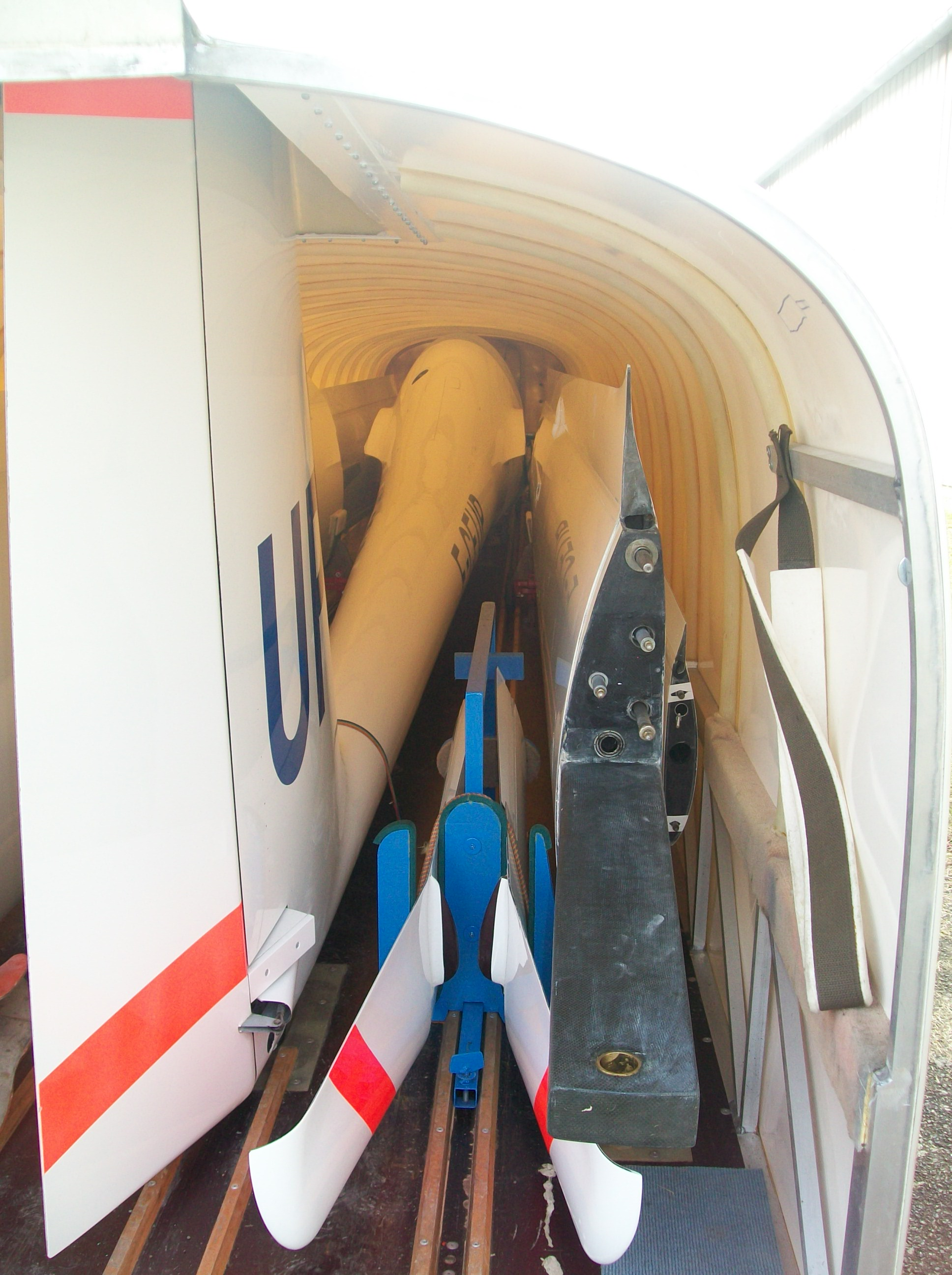 Nimbus 3 glider trailer